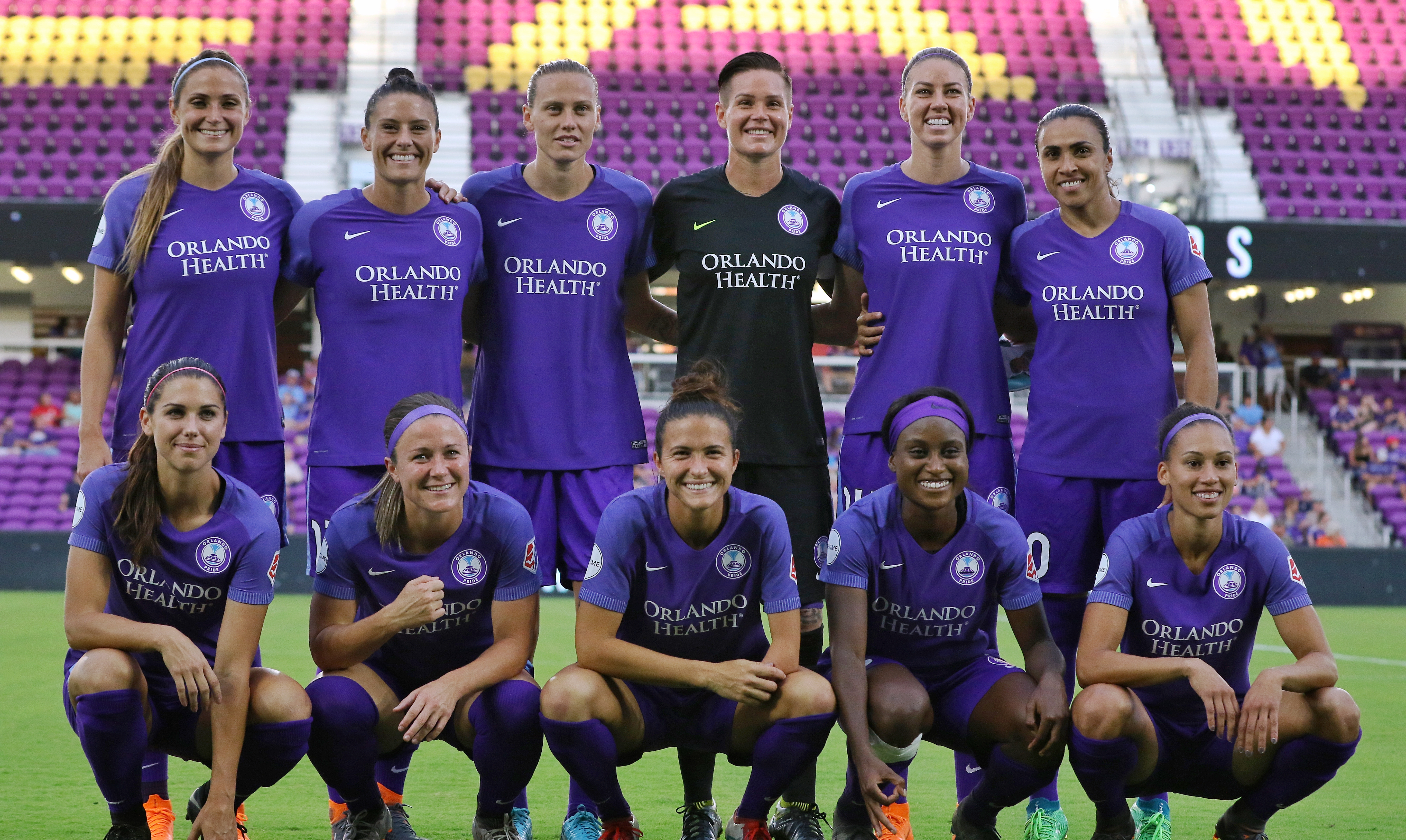 The starting lineup for the Orlando Pride of the NWSL on May 23, 2018.